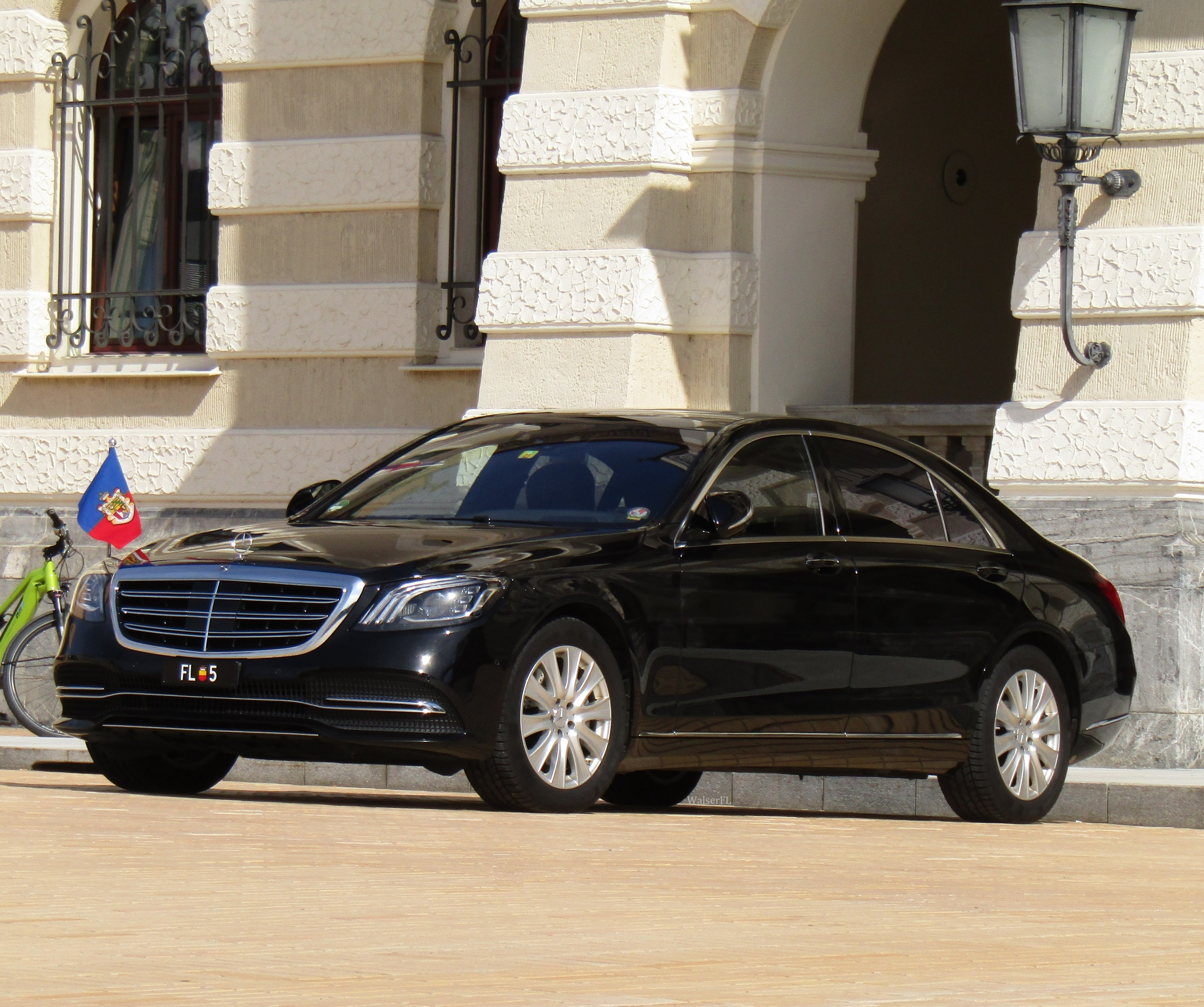 FL 5. This limousine is used by the Liechtenstein government for official journeys and during official visits of high ranked guests in Liechtenstein.